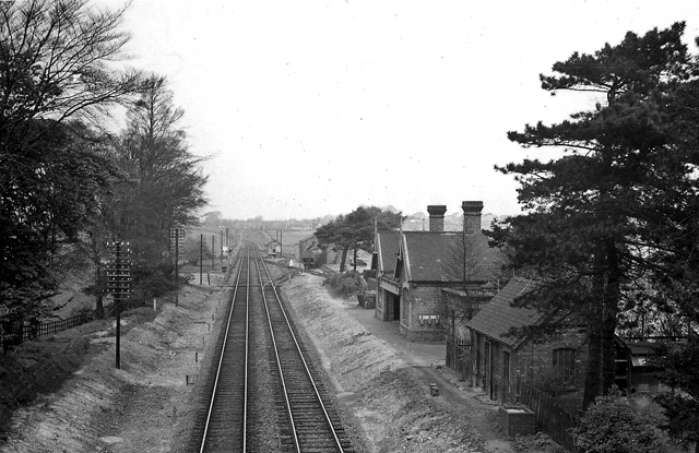 Branston & Heighington Station (remains). View NW, towards Lincoln, Doncaster etc.; ex-Great Northern & Great Eastern Joint main line, March - Spalding - Sleaford - Lincoln - Doncaster. This former trunk line survives, but this station was closed 3/11/58 (goods, 7/12/64).